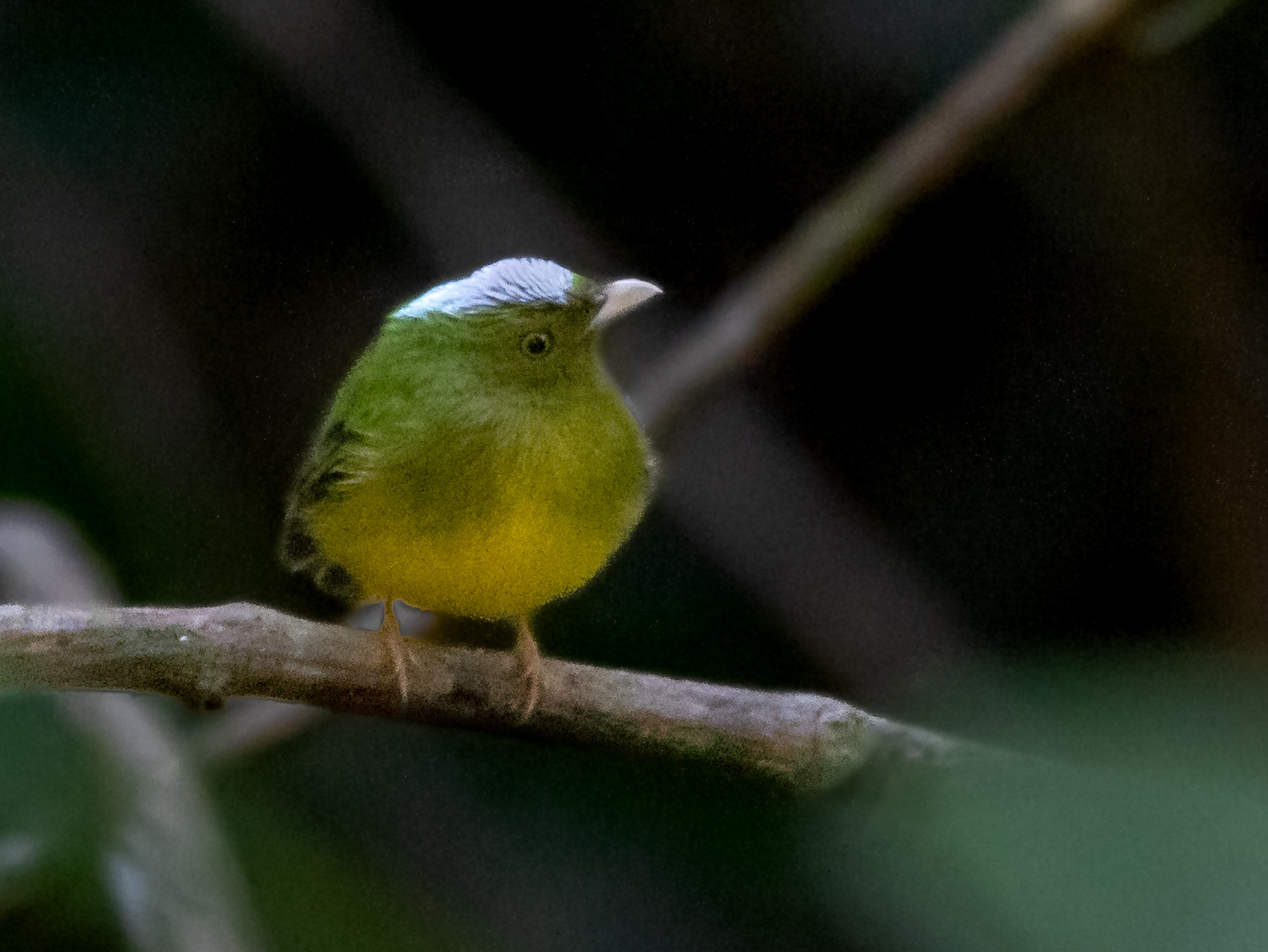 Lepidothrix iris - Opal-crowned Manakin (male); Carajas National Forest, Pará, Brazil